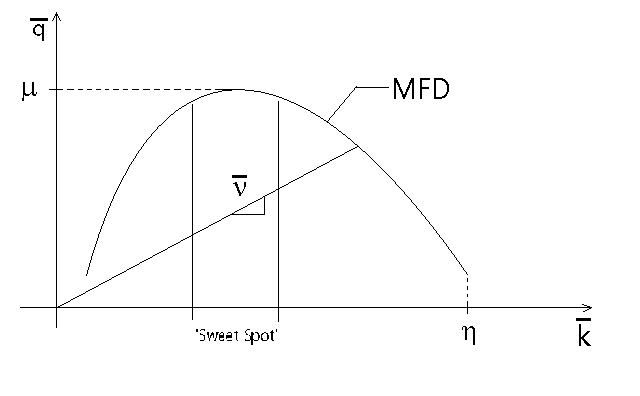 The diagram is that of a Macroscopic Fundamental Diagram (MFD) used in traffic flow.